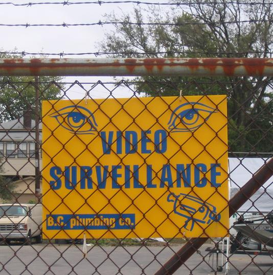 Photo by Quadell